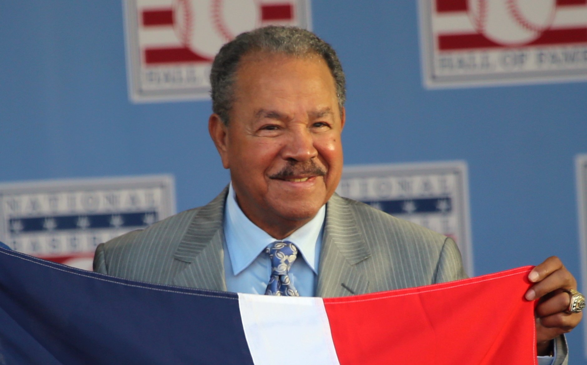 Dominican icons - Pedro Martinez and Juan Marichal - together on stage with the Dominican flag.